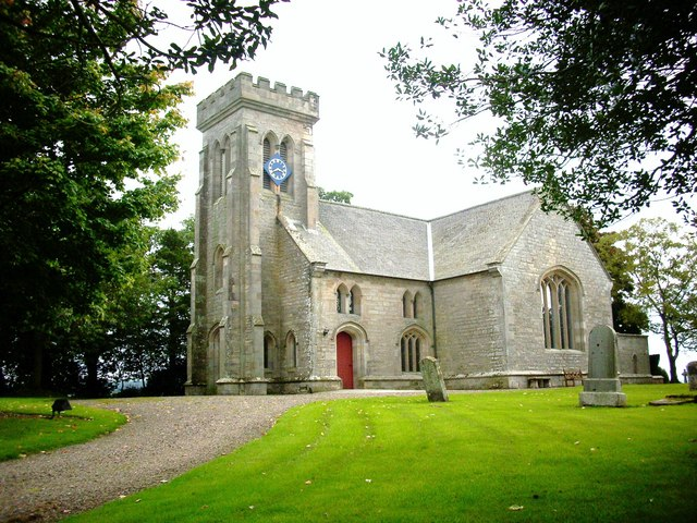 Ruberslaw Parish Kirk. At Minto, the church is most often referred to as Minto Parish Church.